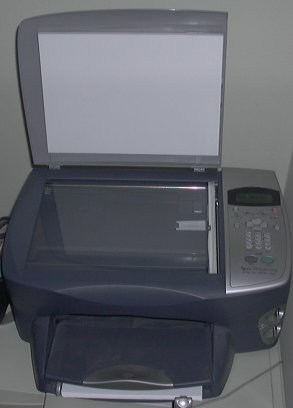 Picture of multifunction printer